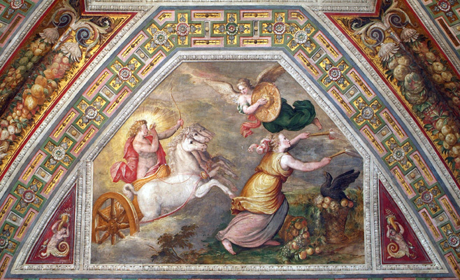 Este Castle of Ferrara, Fresco in the Dawn Room